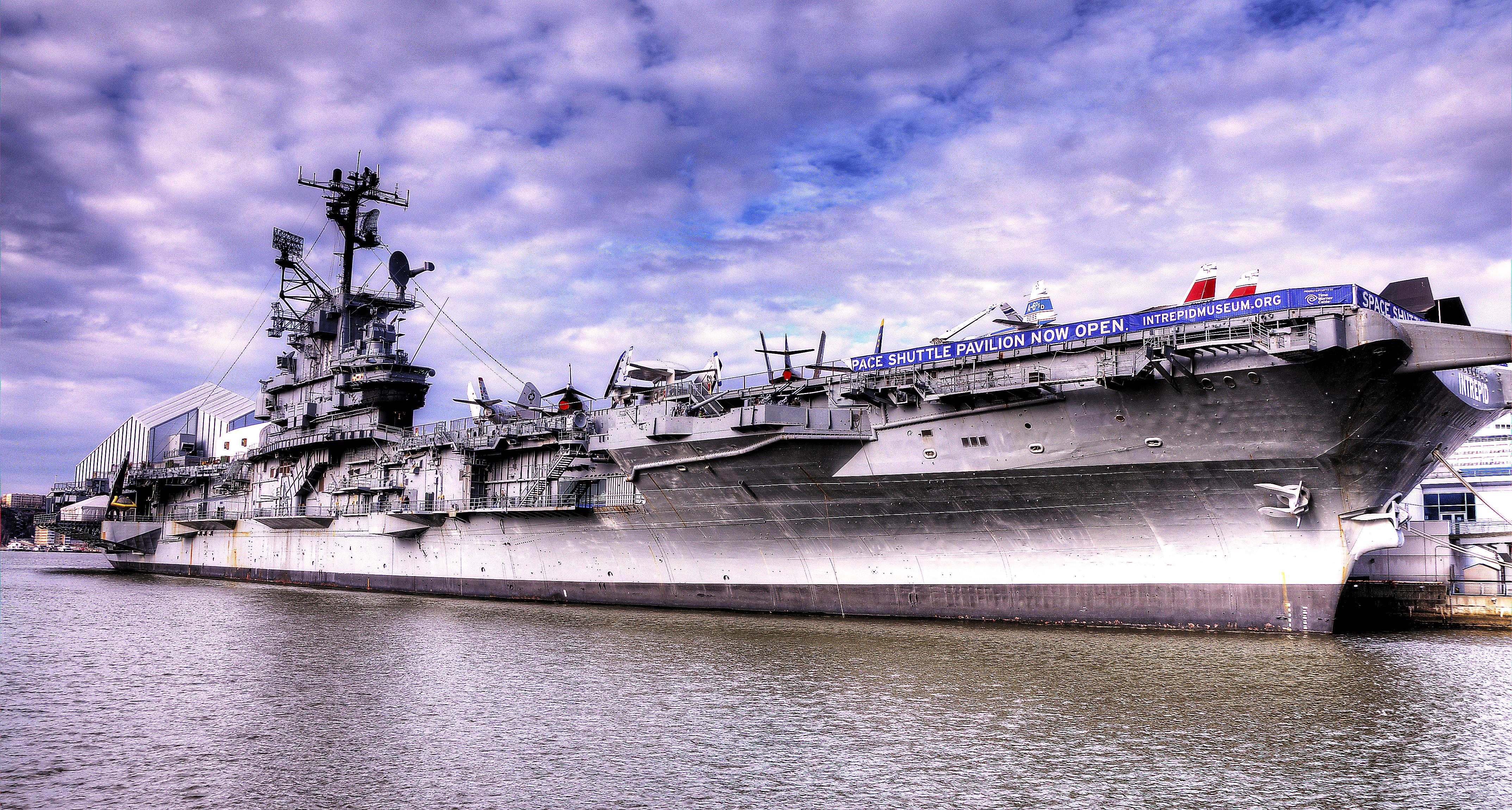 USS Intrepid (CV-11) - museum